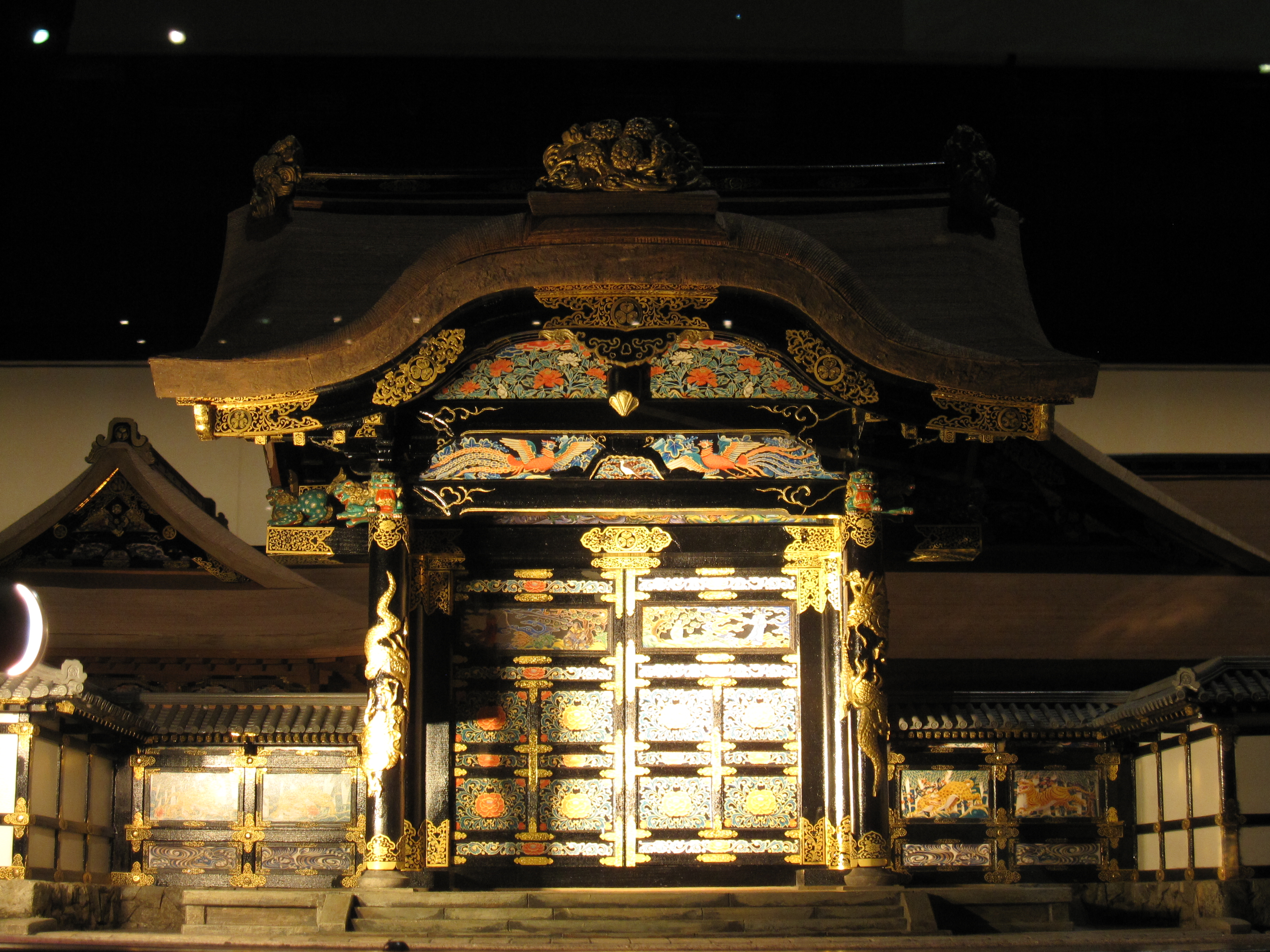 1:30 architectural model of the residence of the daimyo Matsudaira Tadamasa, at the Edo-Tokyo Museum. This gate was reserved for the shogun.